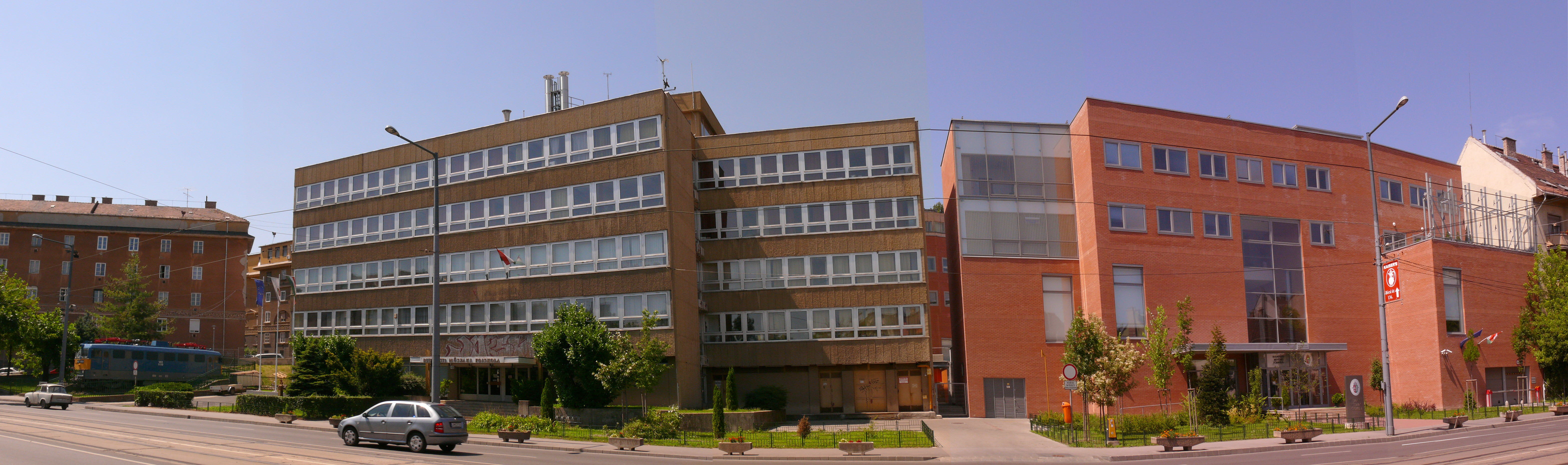 Headquarter of the Budapest Tech Polytechnical Institute at the Bécsi Road